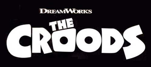 The Croods logo